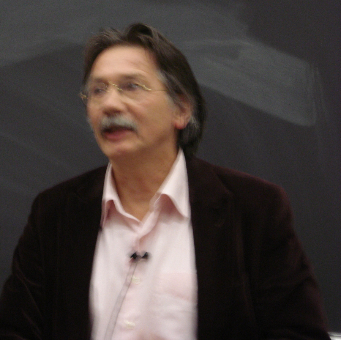 Hans Gerding at an academic conference by A-Eskwadraat.